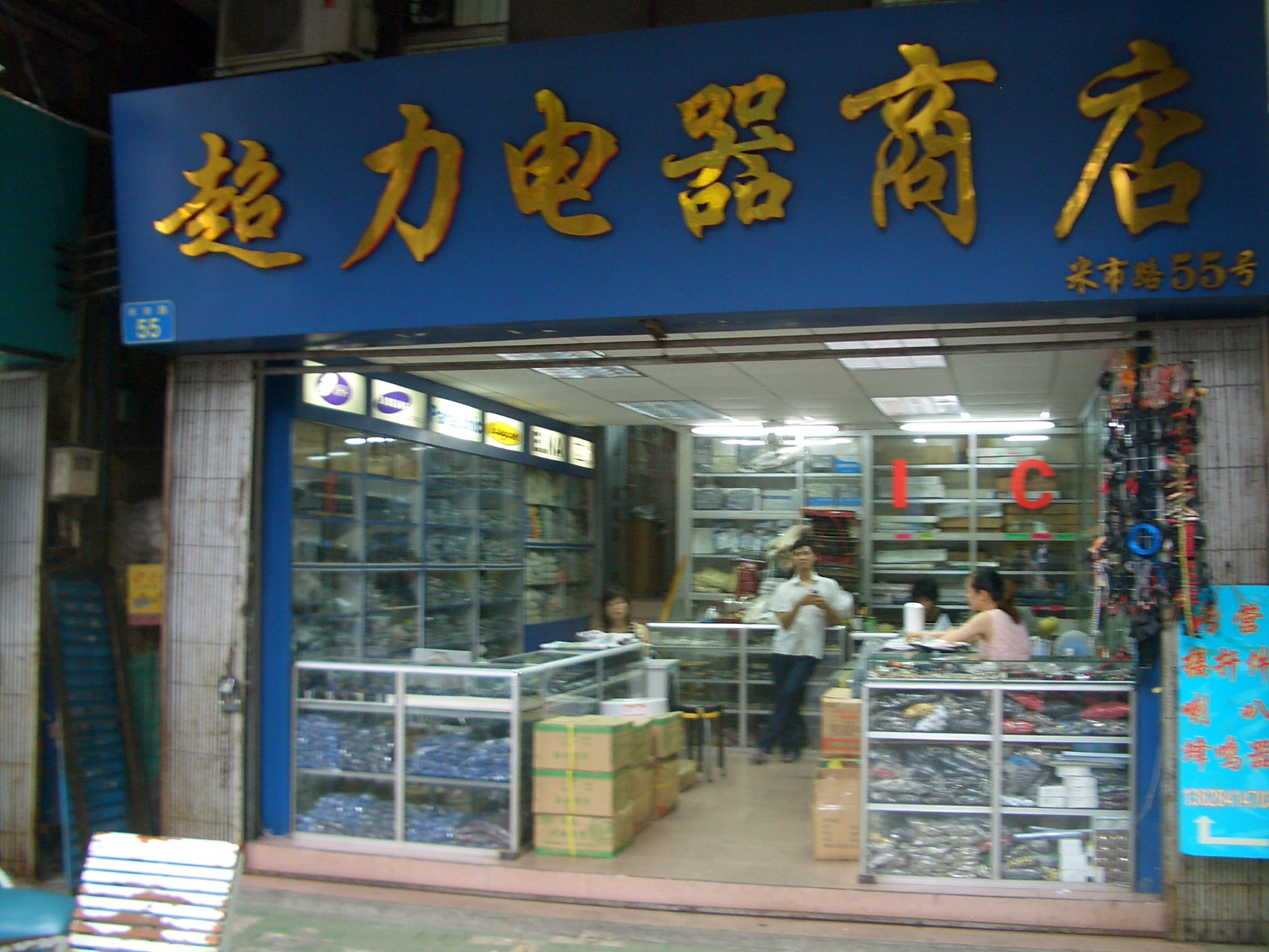 Electronic components shops in Guangzhou. There is a whole area - several blocks not far from the Guangta Mosque - mostly taken over by these shops. They, apparently, supply local companies that assemble various electronic and electric products